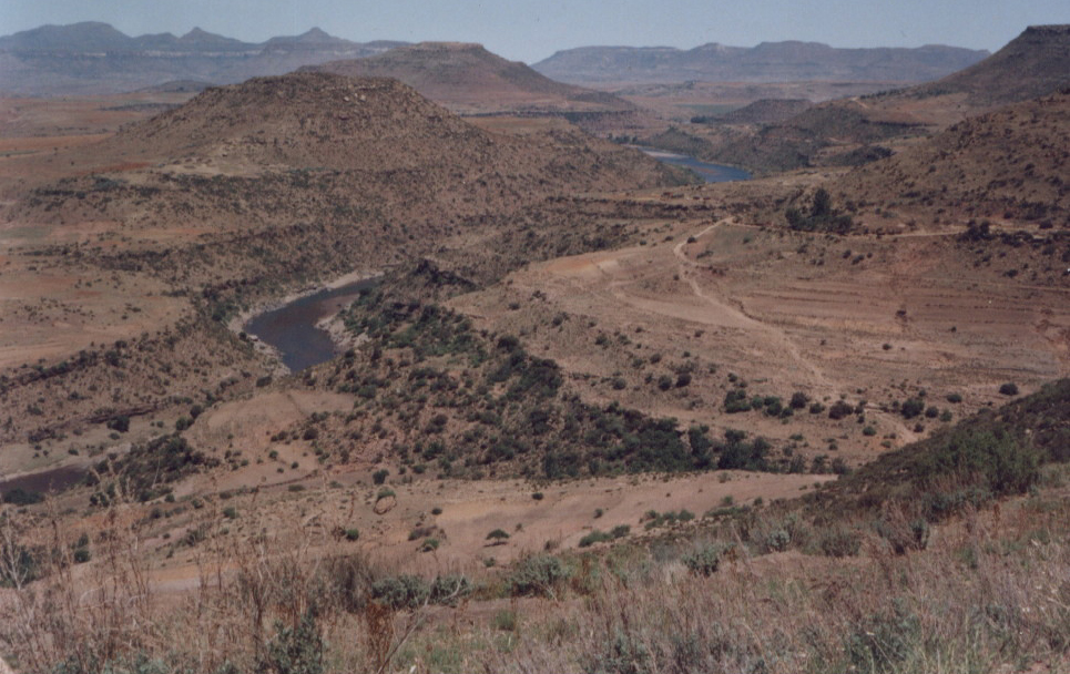 Senqu River (Orange River) in Quthing district, Lesotho